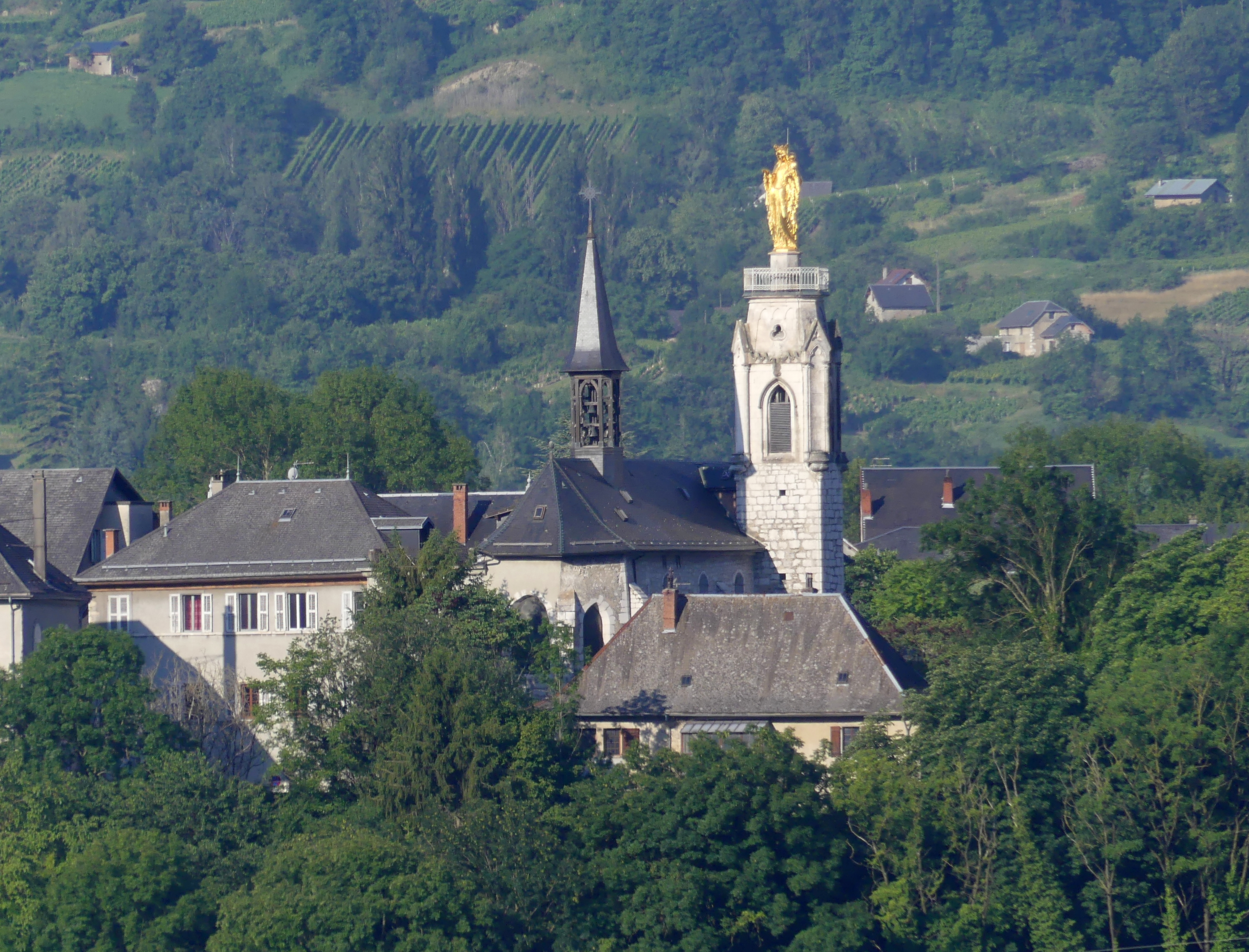 Sight in the morning, from the heights of Chignin, of Notre-Dame de Myans sanctuary and its golden statue, in Savoie, France.